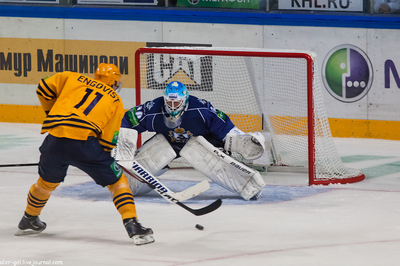 Atlant Moscow Oblast forward Andreas Engqvist failed to score into Amur Khabarovsk goalie Alexei Murygin net during the KHL-game on on September 5, 2012